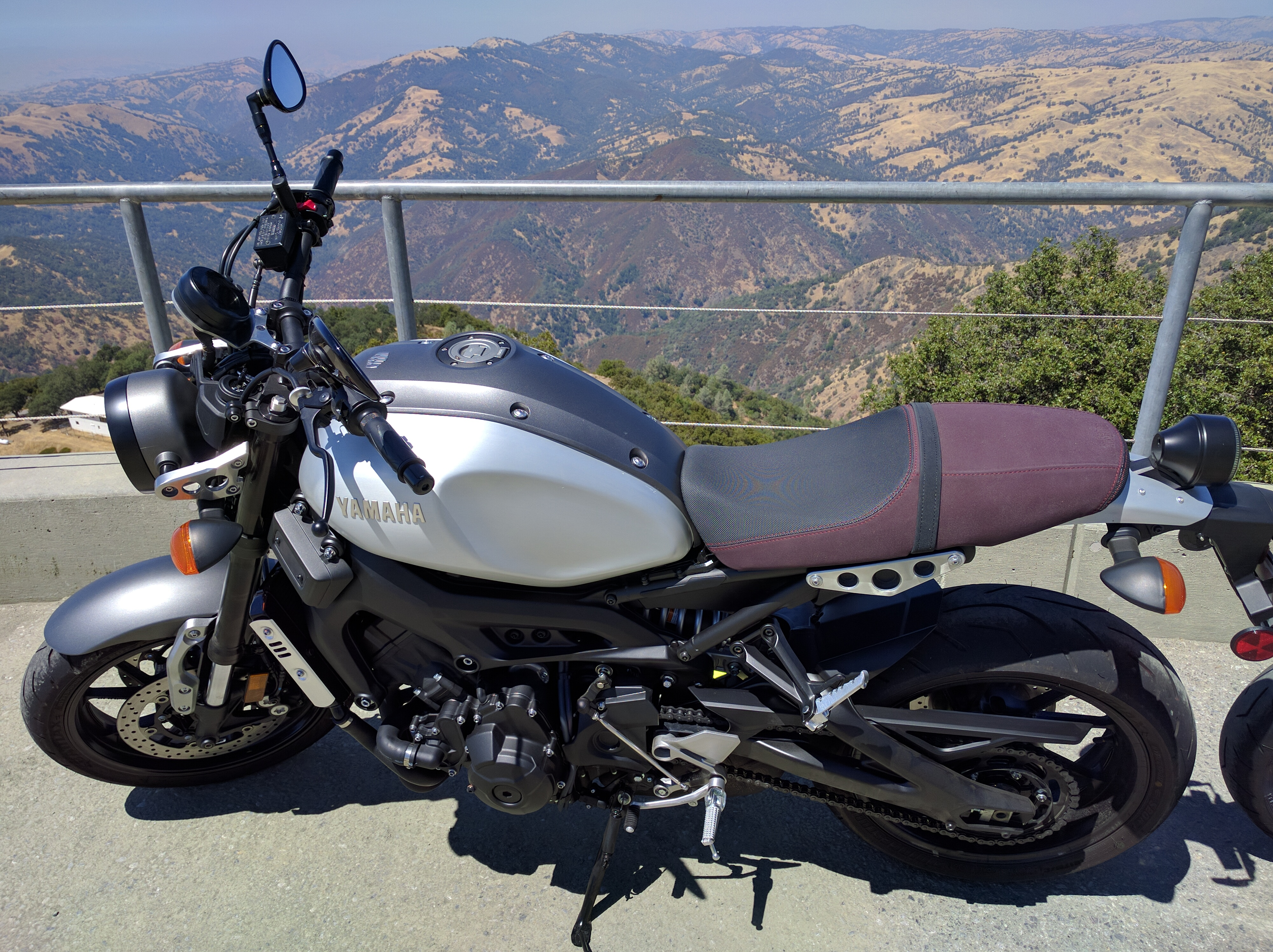 2016 Yamaha XSR900 (Aluminum)